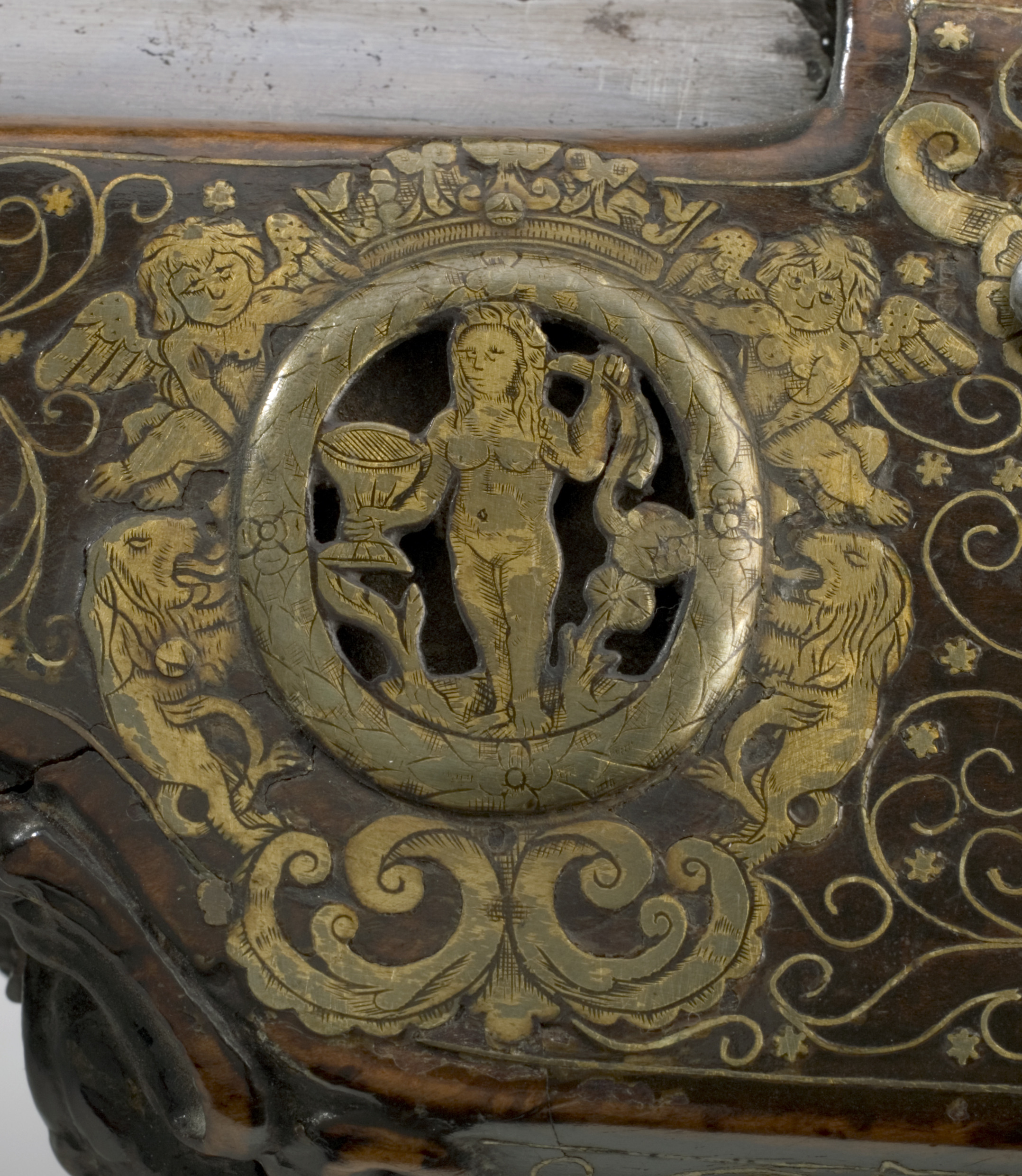 Note: For documentary purposes the original description has been retained. Factual corrections and alternative descriptions are encouraged separately from the original description.detalj stockdekor hjullåsstudsare - LRK 3202, v sida Nyckelord: Stock, Figur, Puttisar, Lejon, Kvinna, Föremålsbild, Kropp, Hjullåsstudsare Depicted person: Vänskapen (Amicitia) (personifikation)